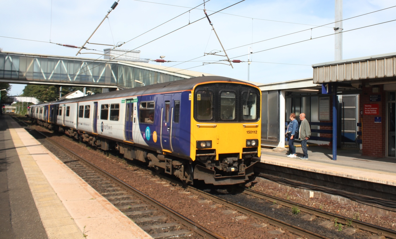 Northern 'Sprinter' units 150112 and 150138 call at Hazel Grove station with a Manchester Piccadilly to Buxton service.